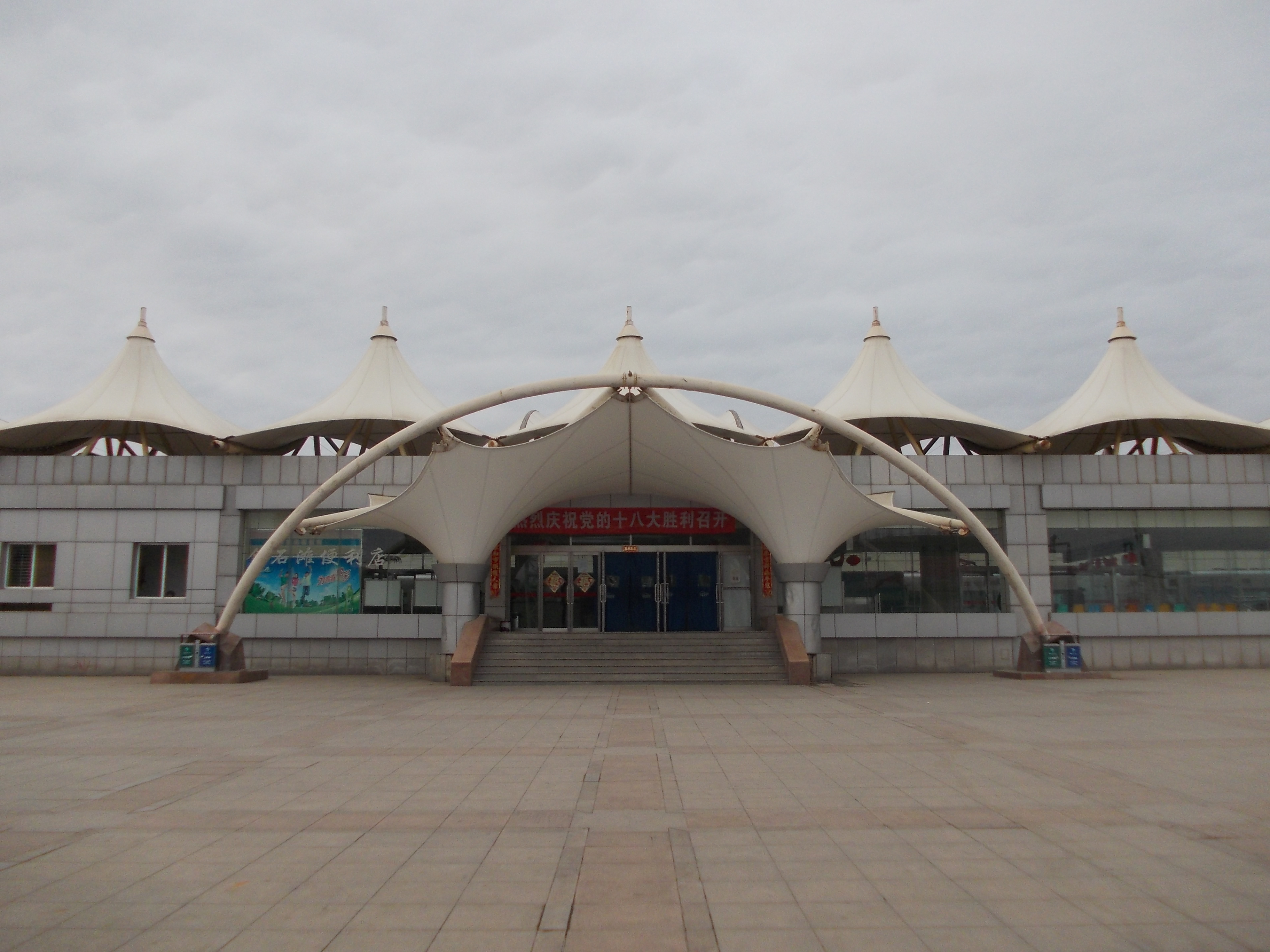 Dalian Metro, Jinshitan Station, Entrance